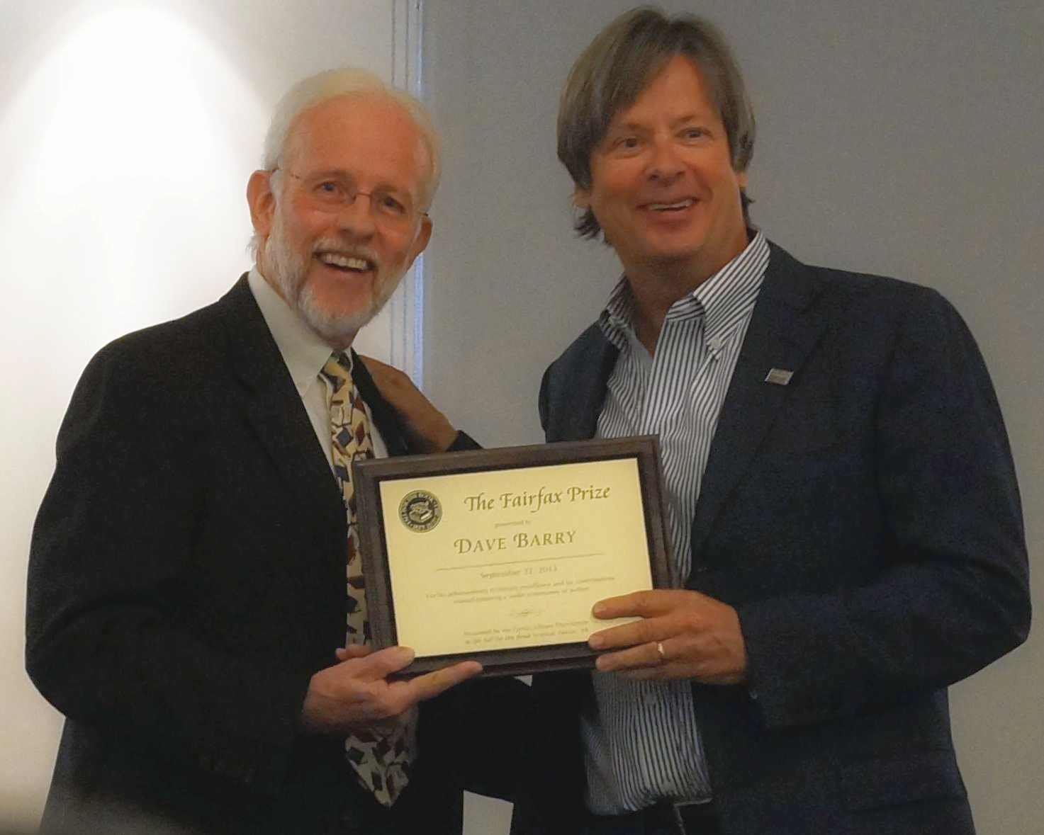 Brian Engler, Chair of the Fairfax Library Foundation, presents the 2013 Fairfax Prize to Dave Barry on September 22, 2013.